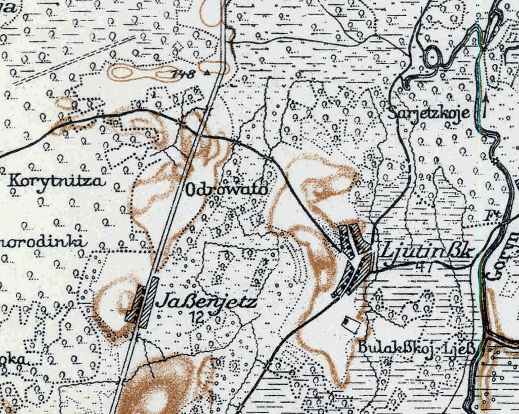 Liutynsk on the map "Karte des Westlichen Russlands", T 35, 1917. According to Digital Repository of Scientific Institutes and Kujawsko-Pomorska Digital Library the map is in the public domain.